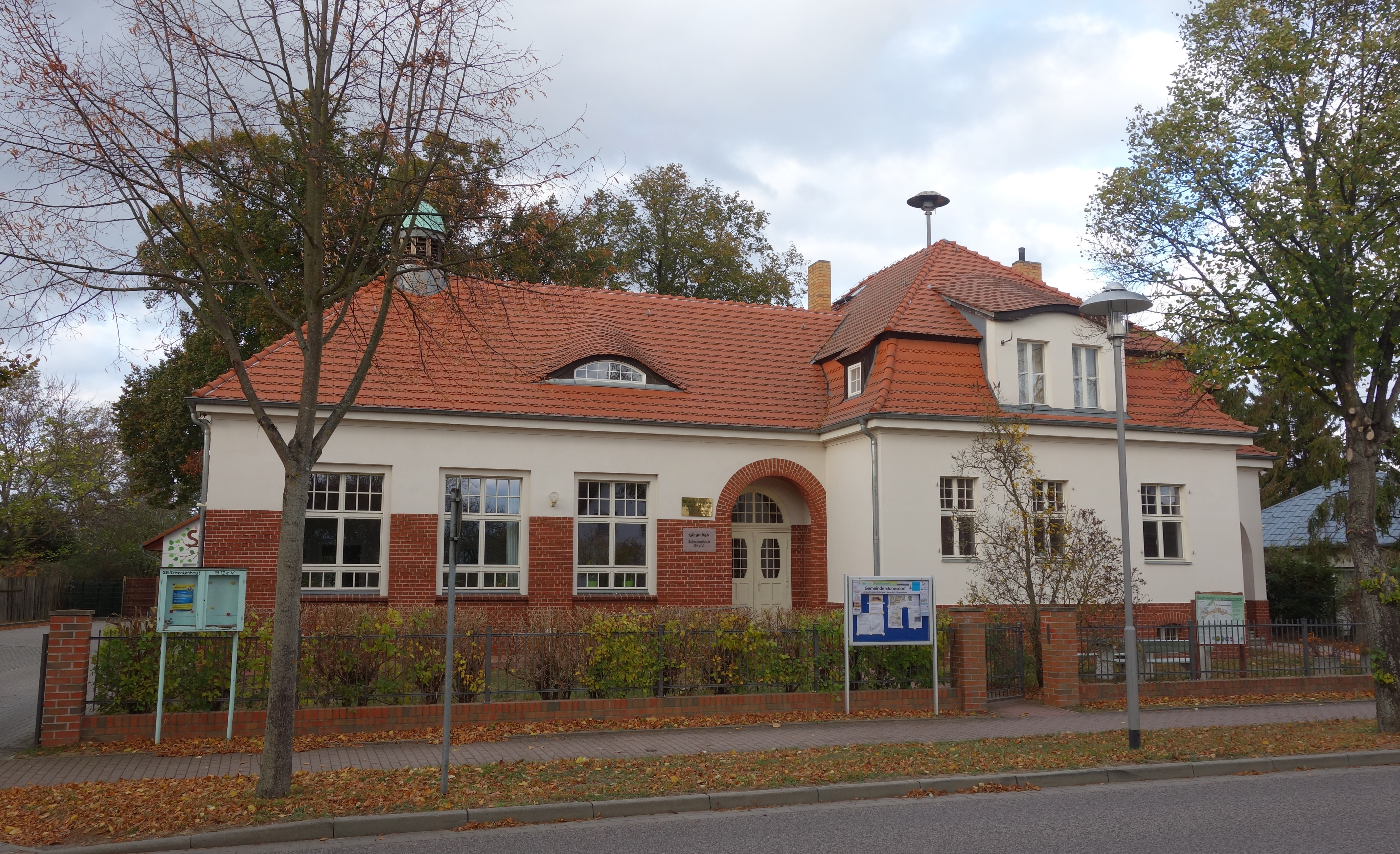 South-south-western view of the former school in Schenkenhorst , Stahnsdorf municipality , Potsdam-Mittelmark district, Brandenburg state, Germany